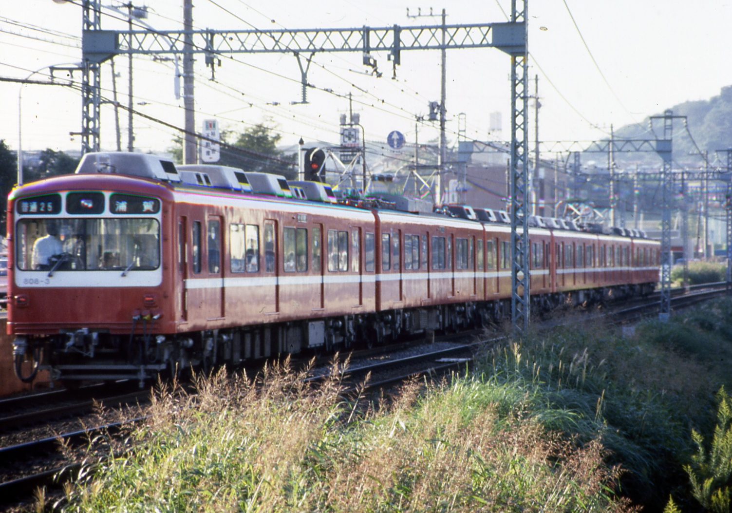 Keikyu 807+808 between Kanazawa-Bunko and Nokendai